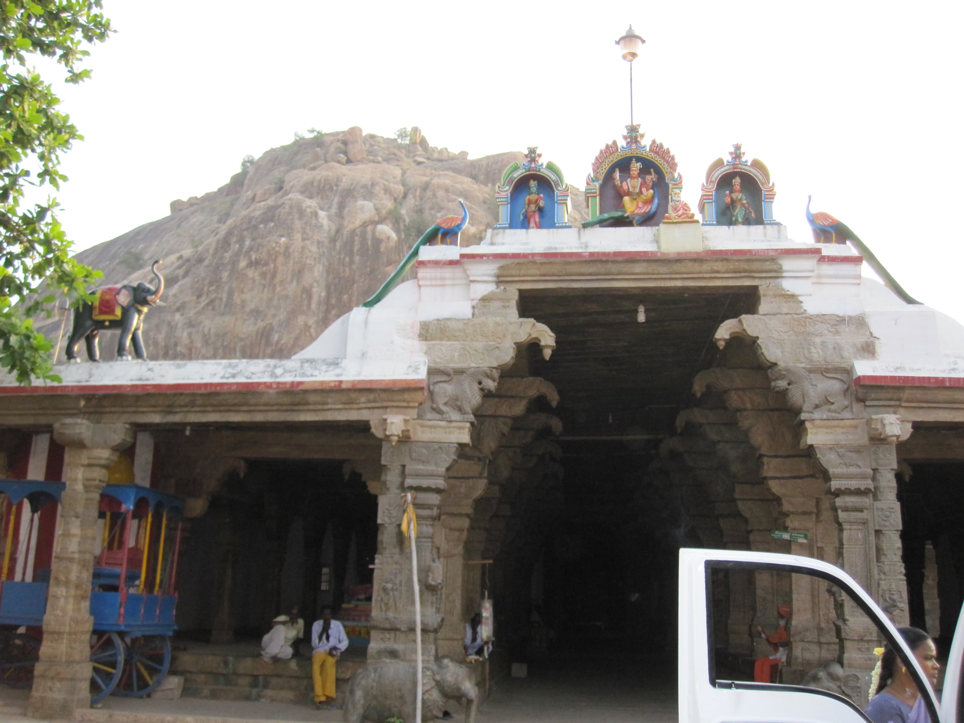 Kazhugumalai Kazhugasalamoorthi Temple, Tamil Nadu